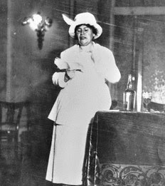 Argentine woman feminist, sufragist, and politician